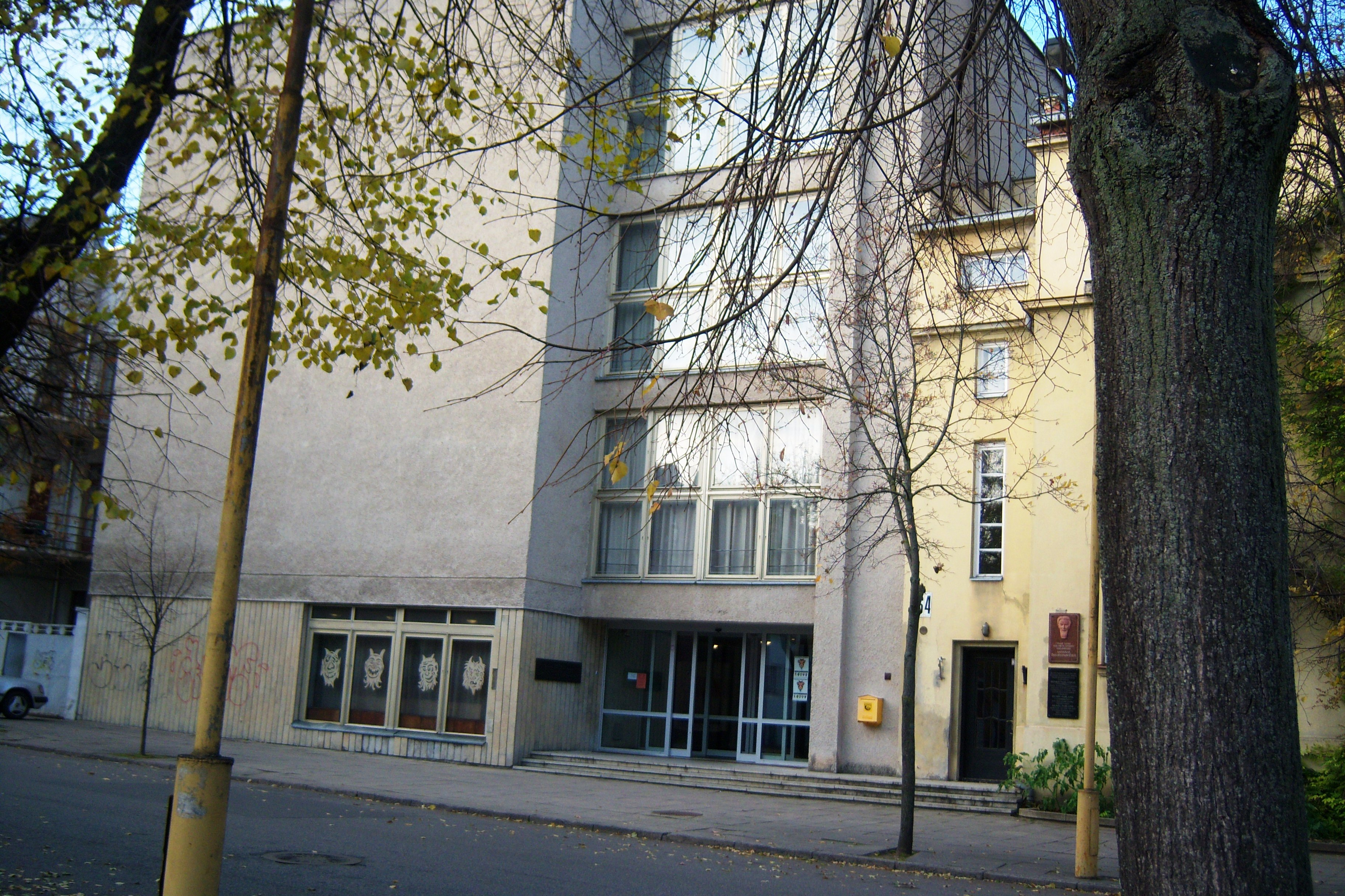 Museum of Devils, Kaunas, Lithuania.